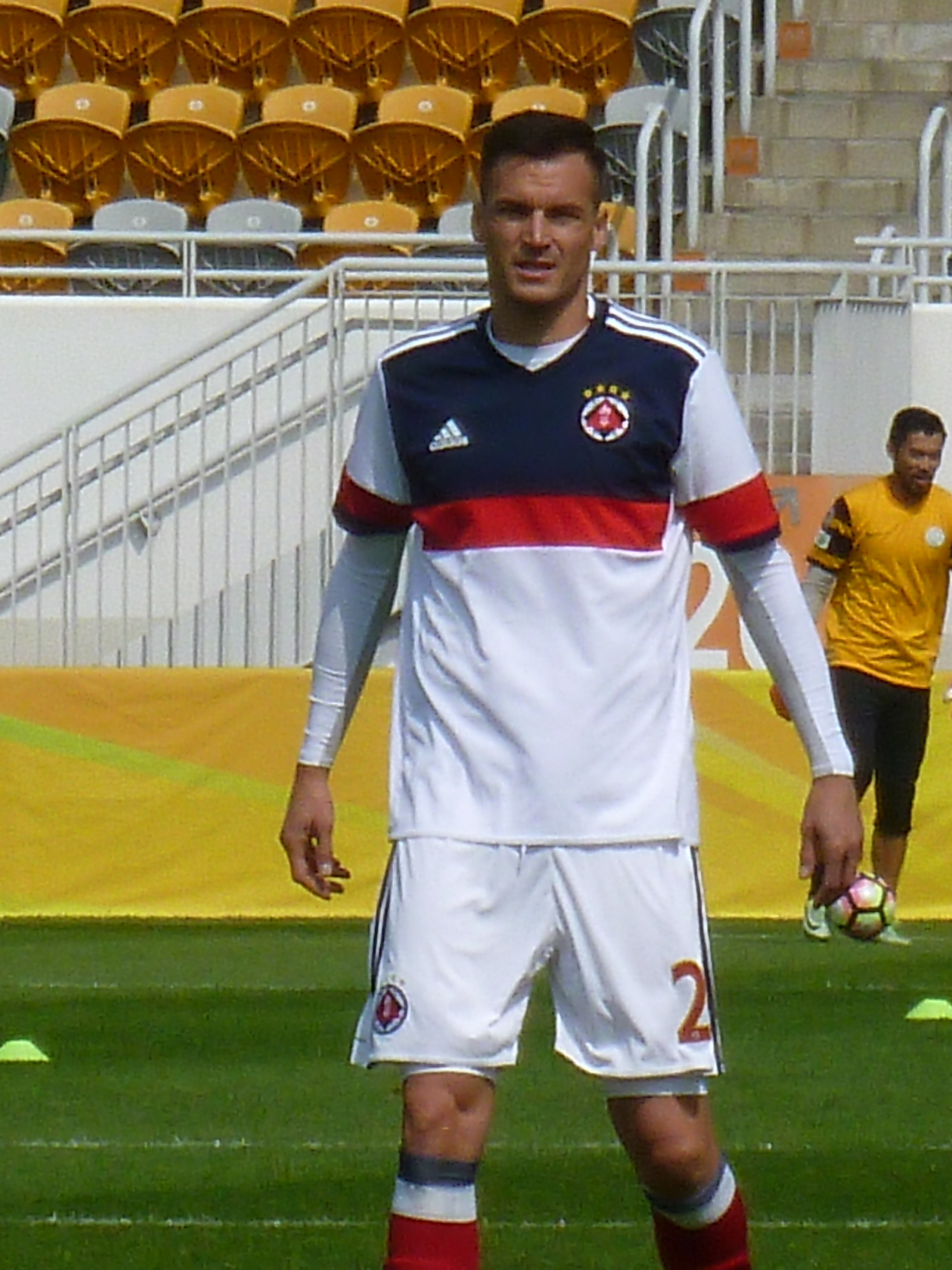 Marko Perović (11 Feb 2017, Sapling Cup, South China vs Tai Po, Mong Kok Stadium) 中文（香港）: 麥高派路域 (11 Feb 2017, 菁英盃半準決賽, 南華 vs 大埔, 旺角大球場)